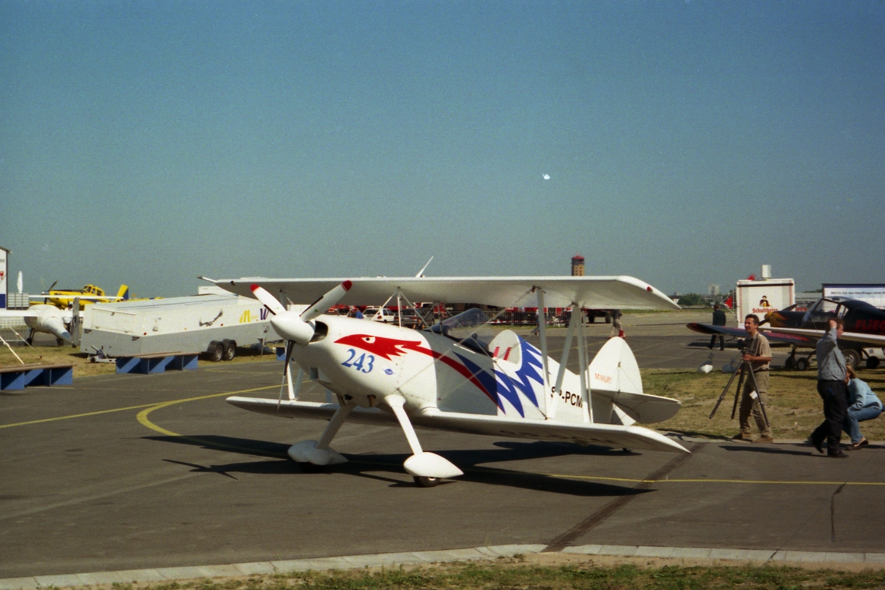 DEKO-9 Magic aircraft ILA 2000 Berlin [1][2]